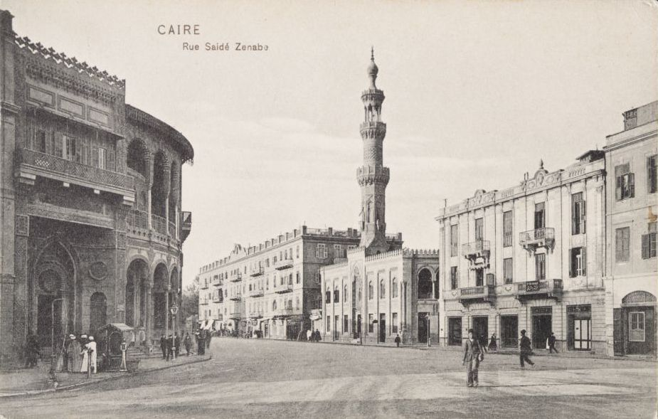 Fairly empty street, with some p eople on the sidewalks Large tower in background